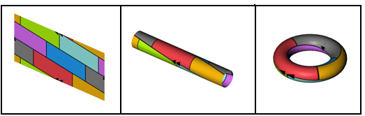 Projection of color fields onto torus (author: Sebastian Kostal) Reformatted from :Image:Projection color torus.jpg